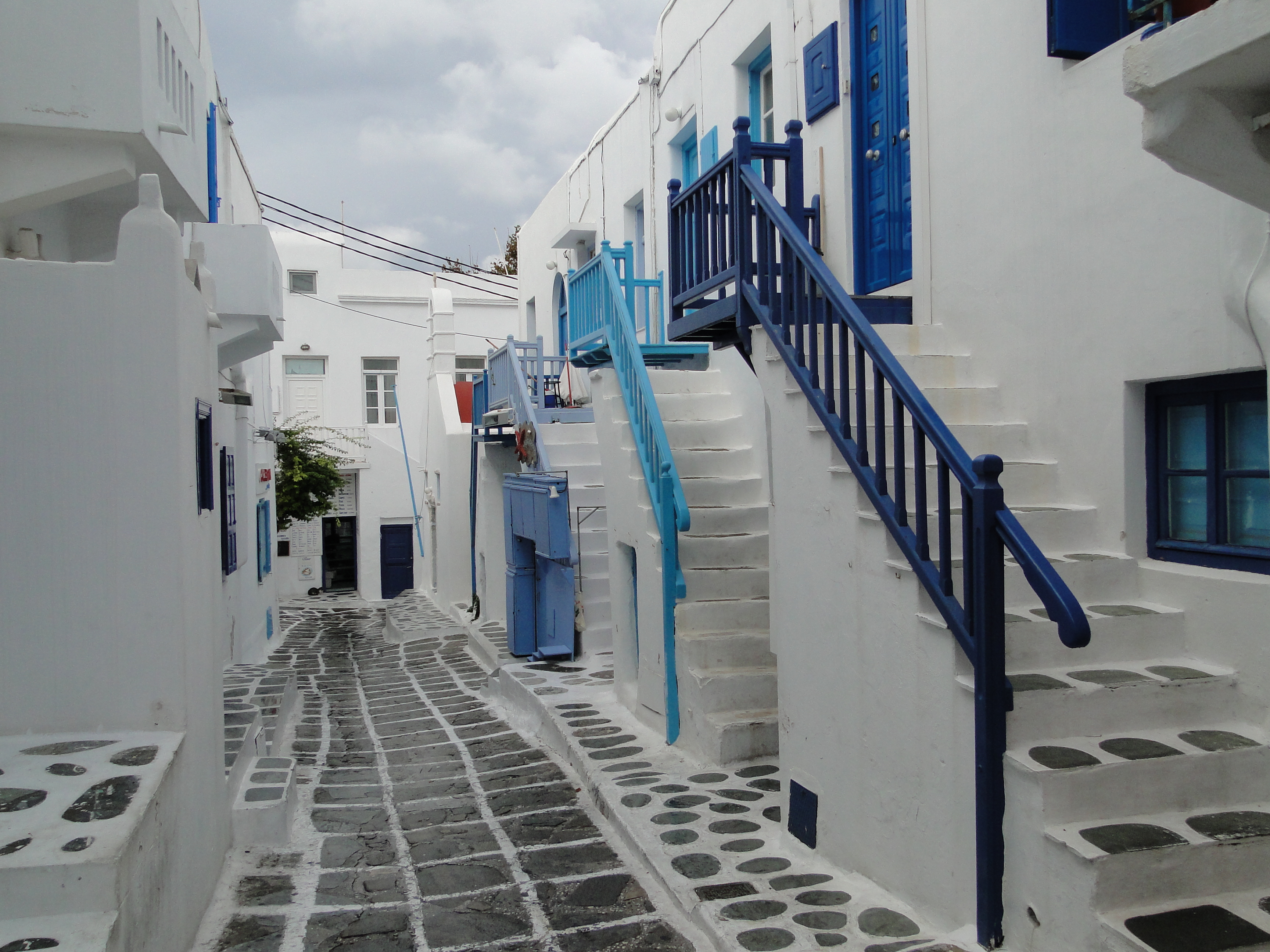 Houses in Mykonos